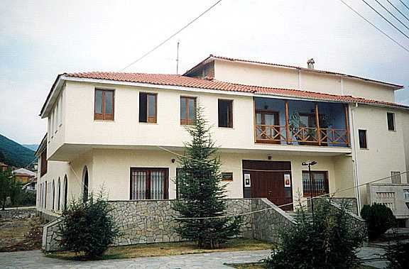 Outside view of the Aristotle Association, image from the Folklore Museum of the Aristotle Association, Florina, West Macedonia, Greece